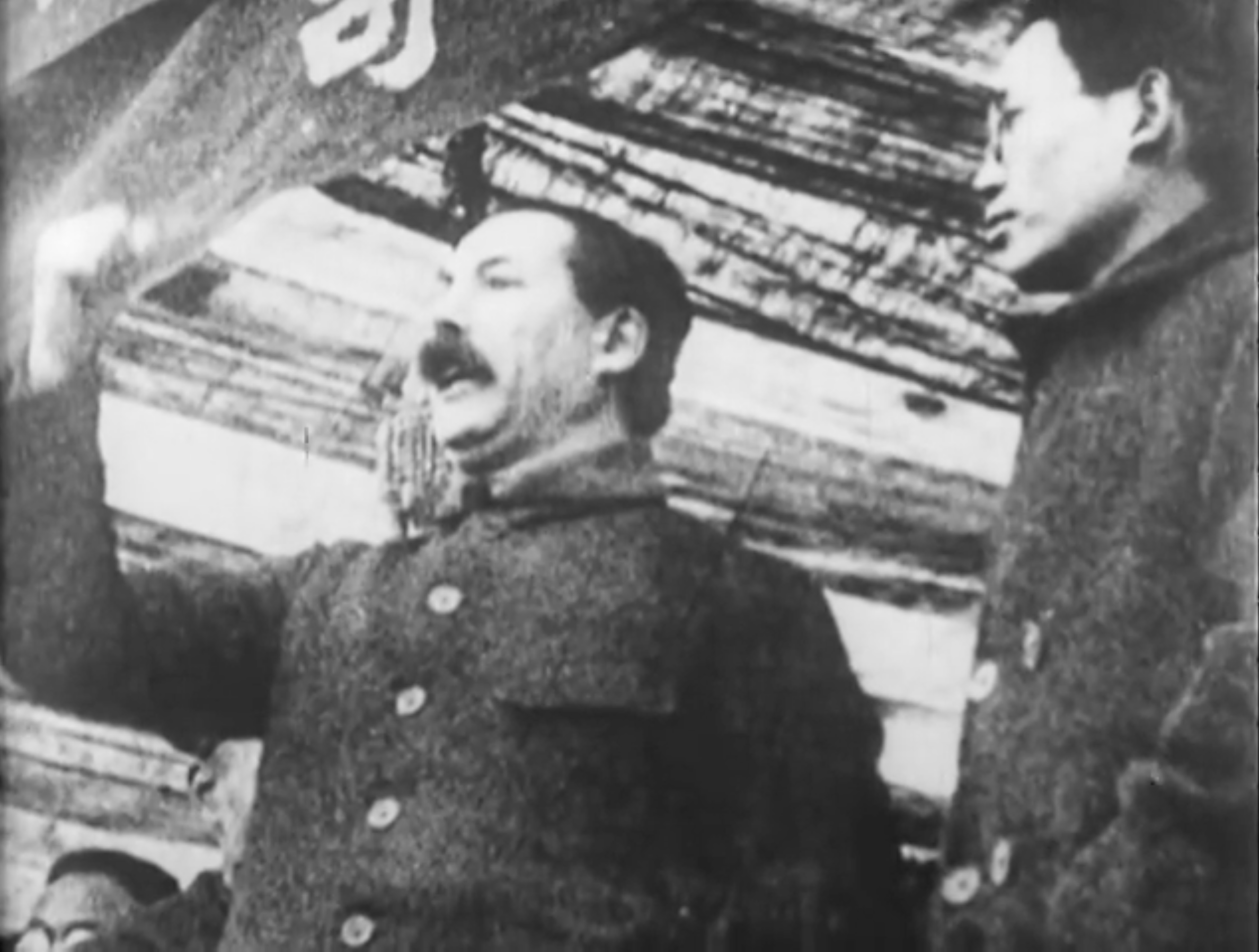 Mikhail Borodin in Wuhan during the period of the Wuhan government